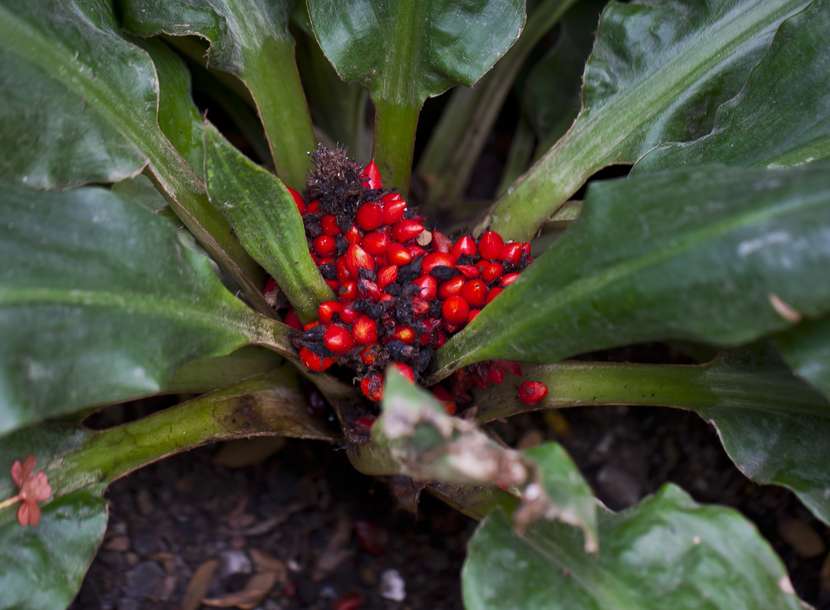 Palisota barteri, Tallinn Botanic Garden, Estonia